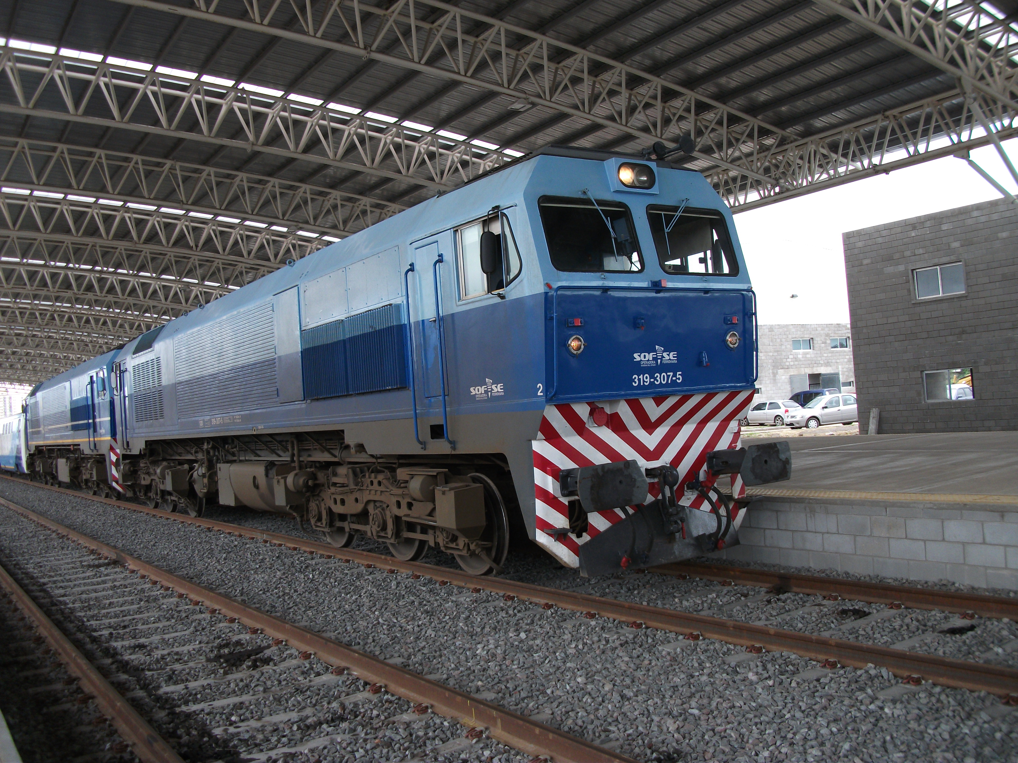 Diesel Locomotive Electric J26-CW-HEP # 319-307-5 (CC) of the Operadora Ferroviaria Sociedad del Estado (SOFSE) by MACOSA built in Spain in 1992, operated at RENFE, part of the Class 319. Were sold to Argentina, Spain being renovated as part of the trade agreement. Photographed in October 2011 in Mar del Plata trancionando Talgo also a composite type of Spanish origin.